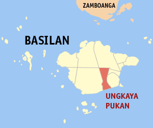 Map of the Basilan showing the location of Ungkaya Pukan